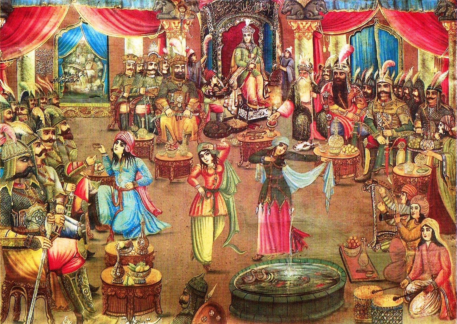 Convivial meeting of Kai Khosrow by Hossein Qollar-Aqasi